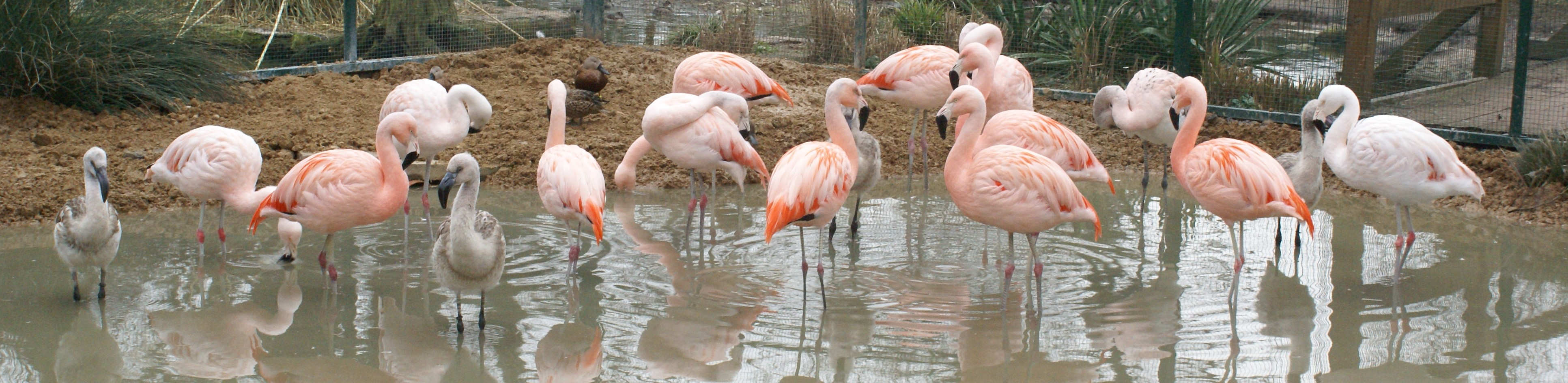 Chilean flamingos Phoenicopterus chilensis at the Tiergarten Bernburg